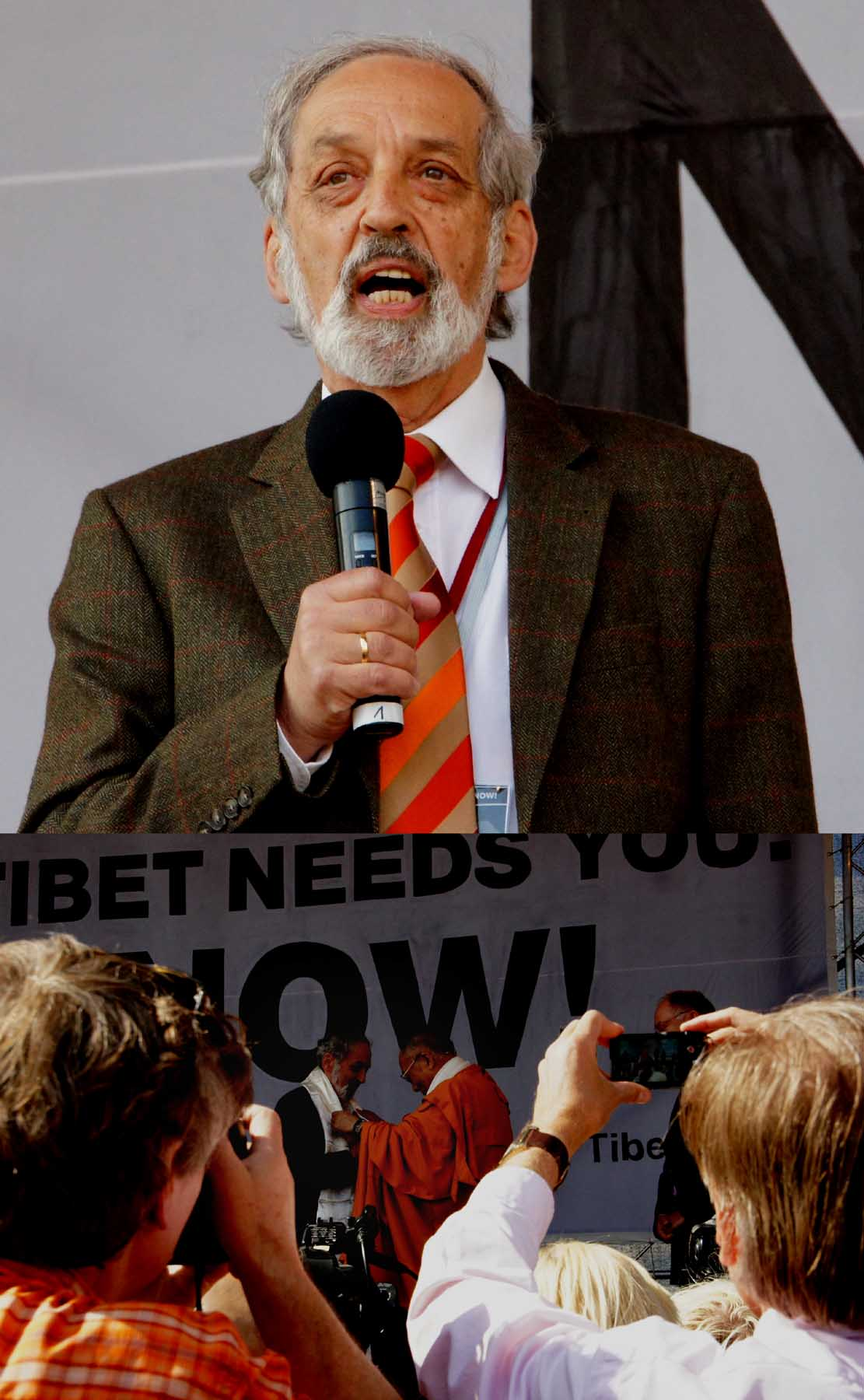 Heinz Nußbaumer, presenting H.H. the 14th Dalai Lama, on occasion of 'Europe for Tibet Solidarity Rally'.